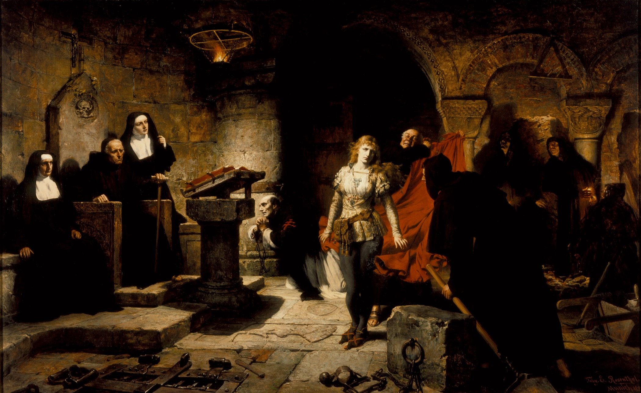 United States, 1880-1883 Paintings Oil on canvas Gift of Joseph J. Szymanski in memory of Renate Lippert Szymanski (AC1993.233.1) American Art